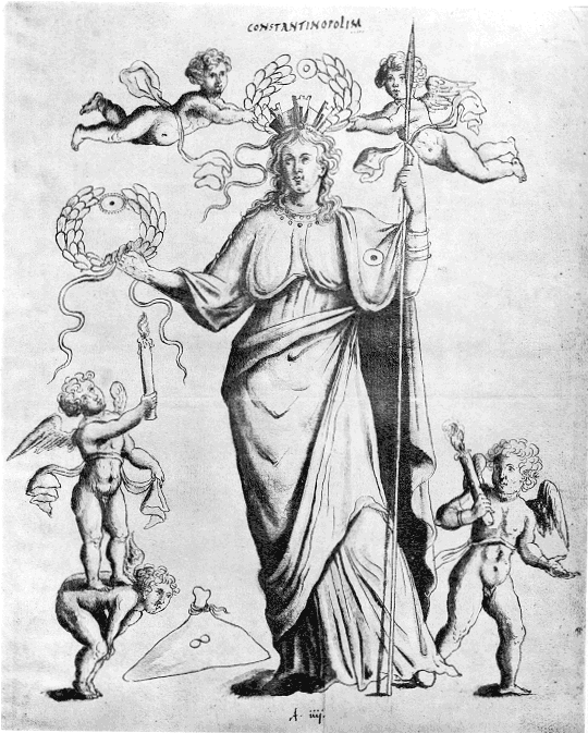 Personification of the city of Constantinople as in "Chronography of 354", 354 AD